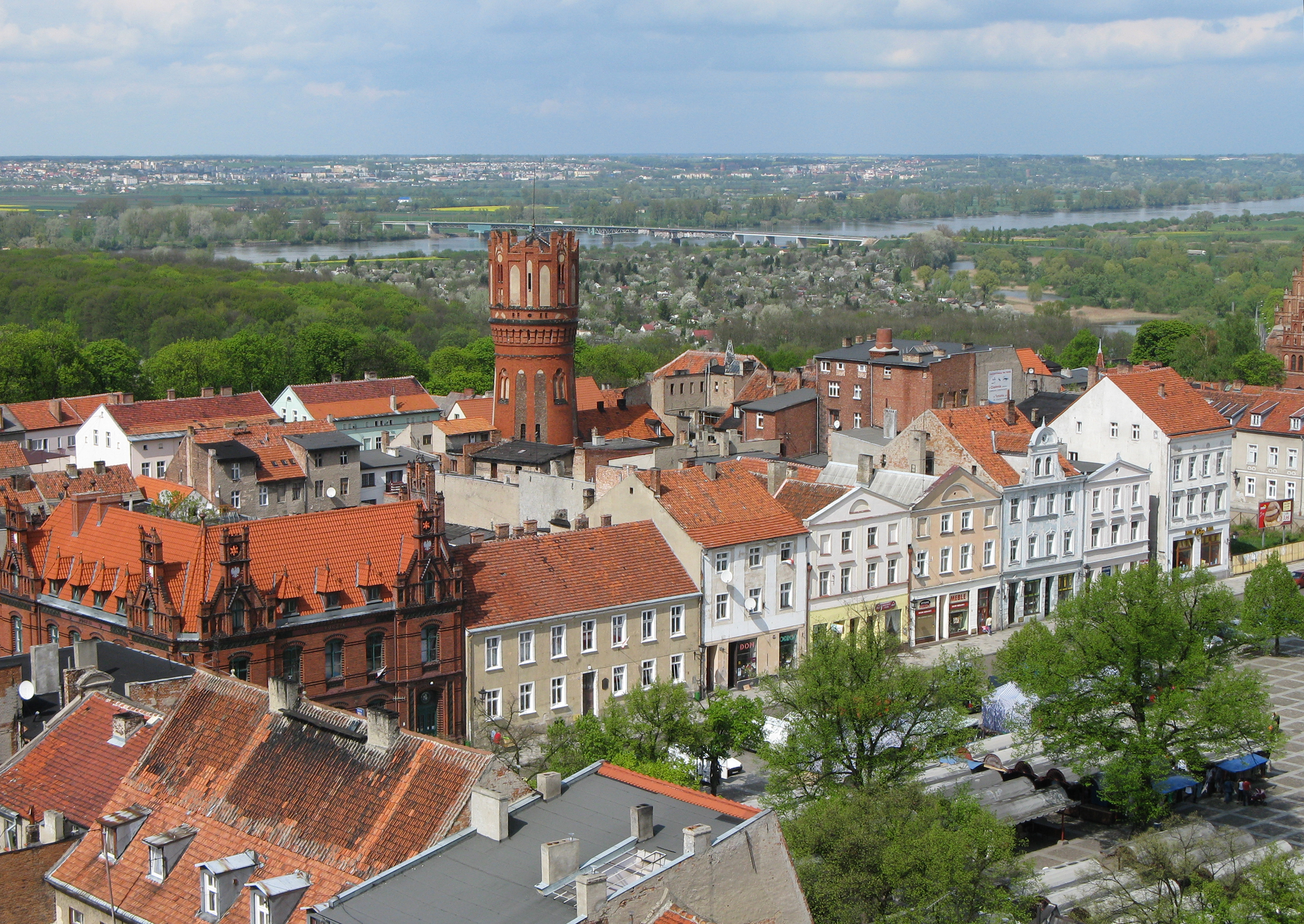 Market Square in Chełmno